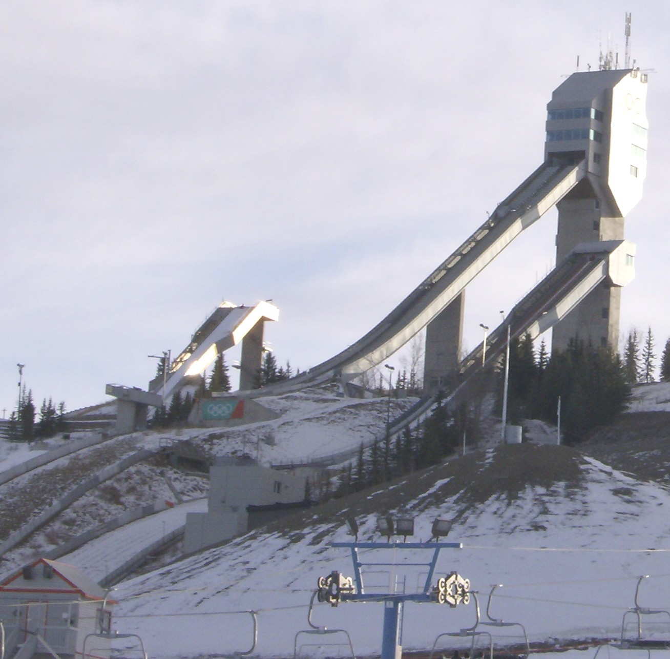 Canada Olympic Park in Calgary, Alberta, Canada.